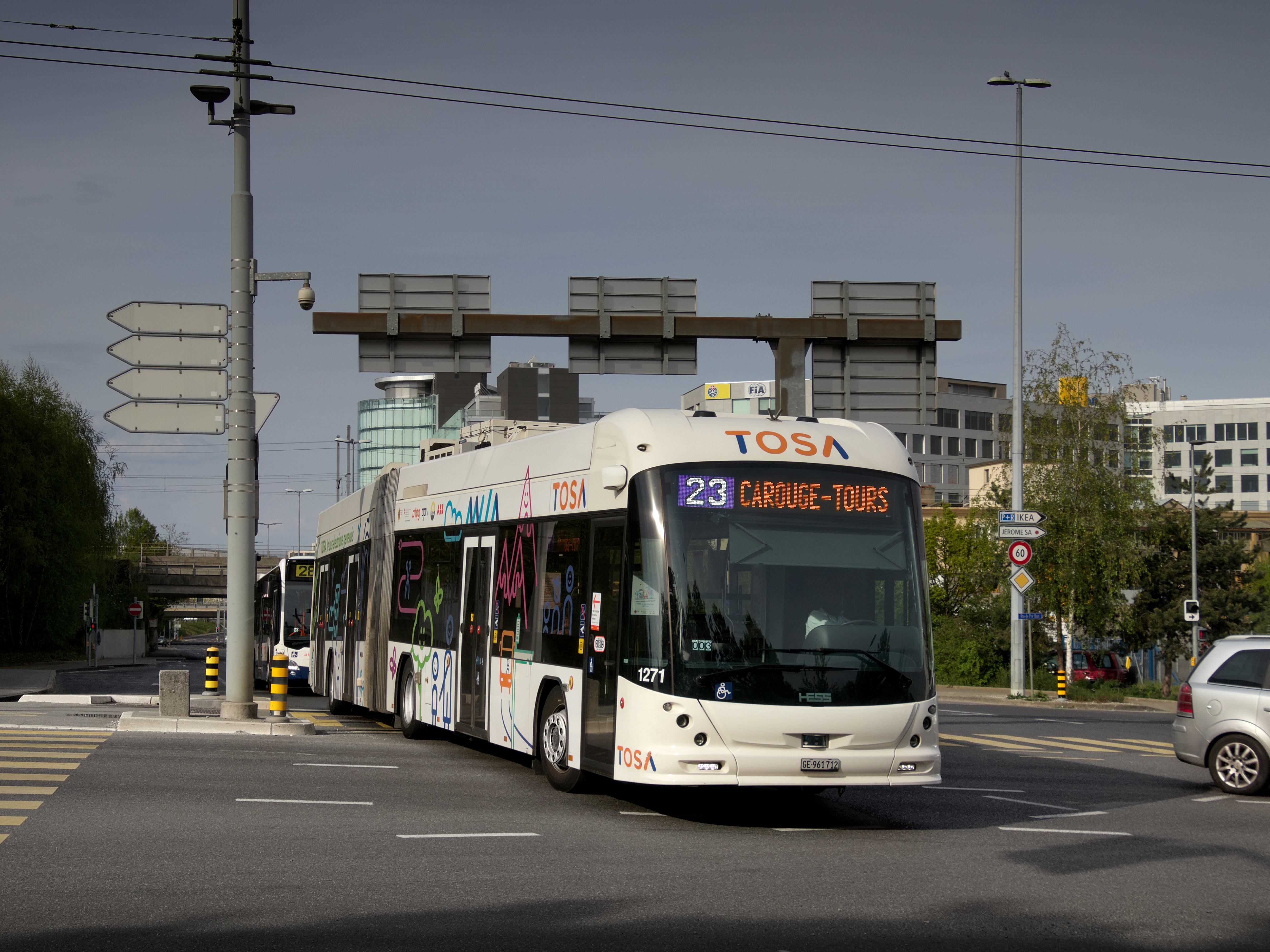 An electric bus on line 23 in Geneva.